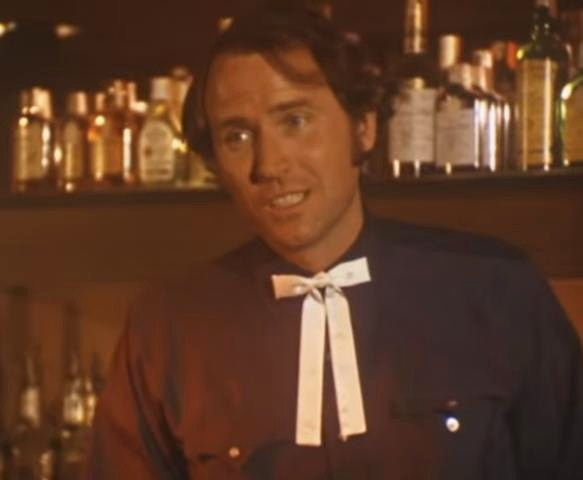 Harry Northup in Alice Doesn't Live Here Anymore - trailer (cropped screenshot)